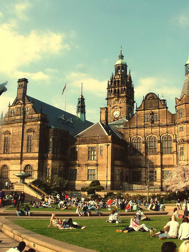 Picture Taken by Lukacs in Sheffield, April 7, 2007.